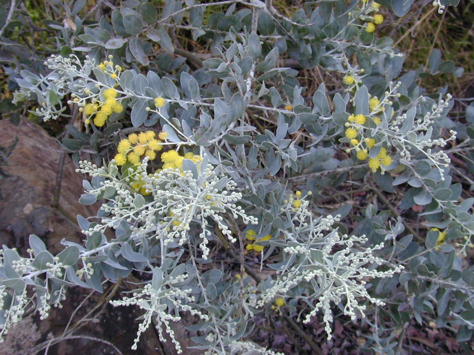 Acacia podalyriifolia (flowers and leaves). Location: Maui, Waipoli rd